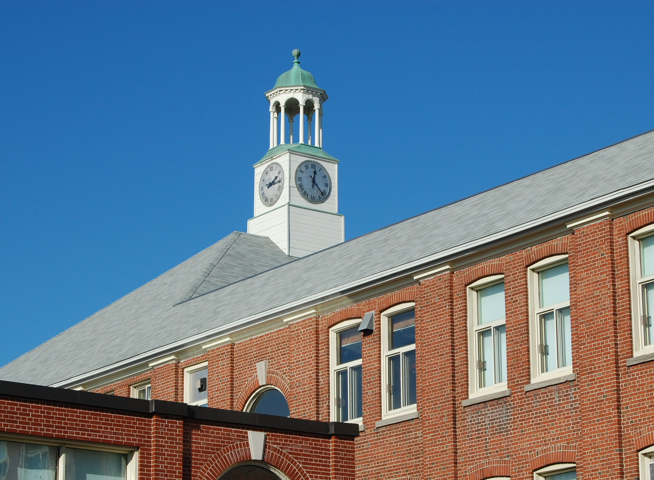 Royal West Academy in Montreal-West